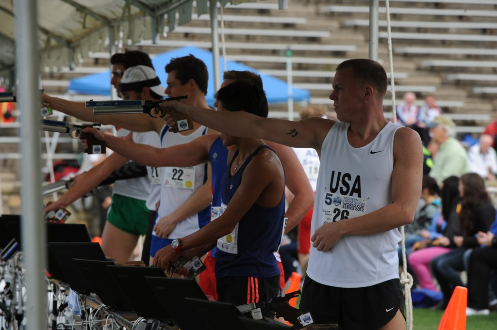 U.S. Army World Class Athlete Program Spc. Dennis Bowsher shoots his way to a 25th-place finish in his qualification group at 2012 Modern Pentathlon World Cup Series stop No. 1 in Charlotte, N.C., on March 9. As of March 20, Bowsher is the only U.S. man qualified to compete in the modern pentathlon at the 2012 Olympic Games in London. U.S. Army photo by Tim Hipps, IMCOM Public Affairs